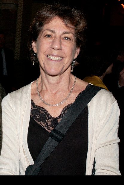 National Coalition Against Censorship celebrates free speech at City Winery with a night of comedy honoring Judy Blume on October 19, 2009.